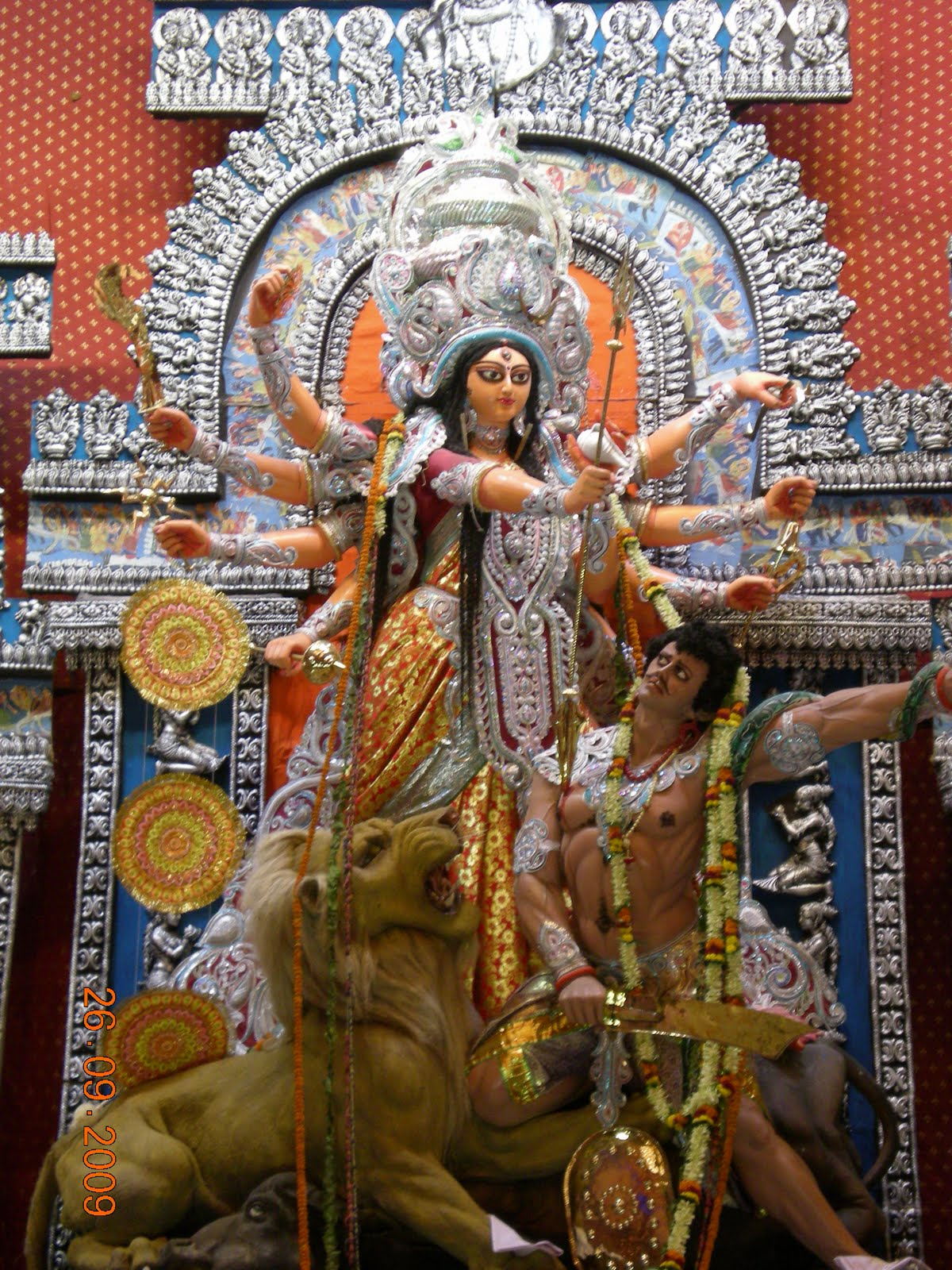 Durga slaying Mahishasura. Durga Puja 2009, Image from College Square, Kolkata.